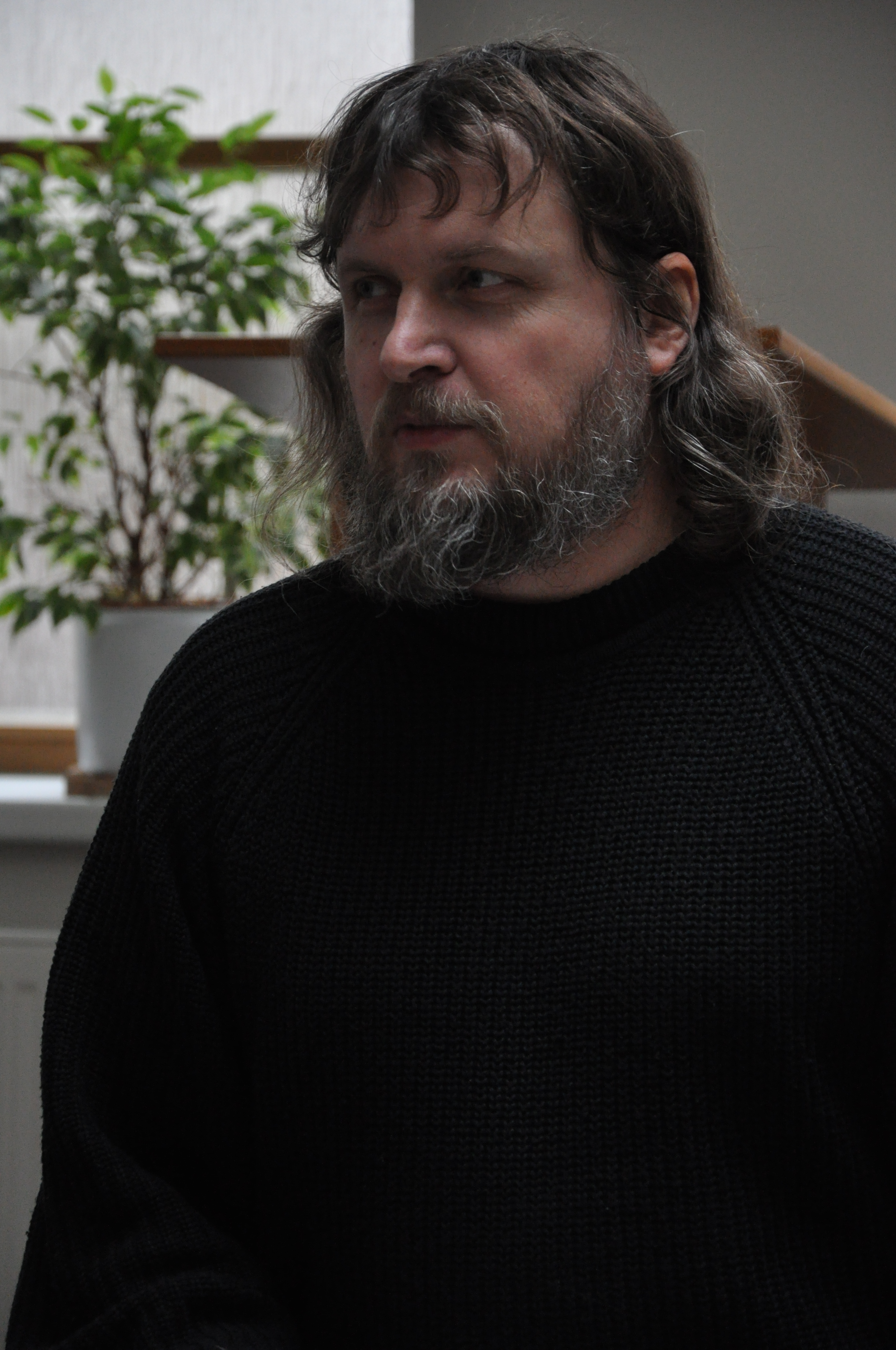 Štěpán Hájek in Brno.